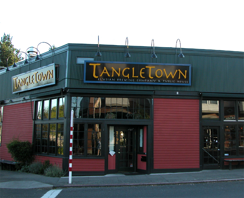 Tangletown